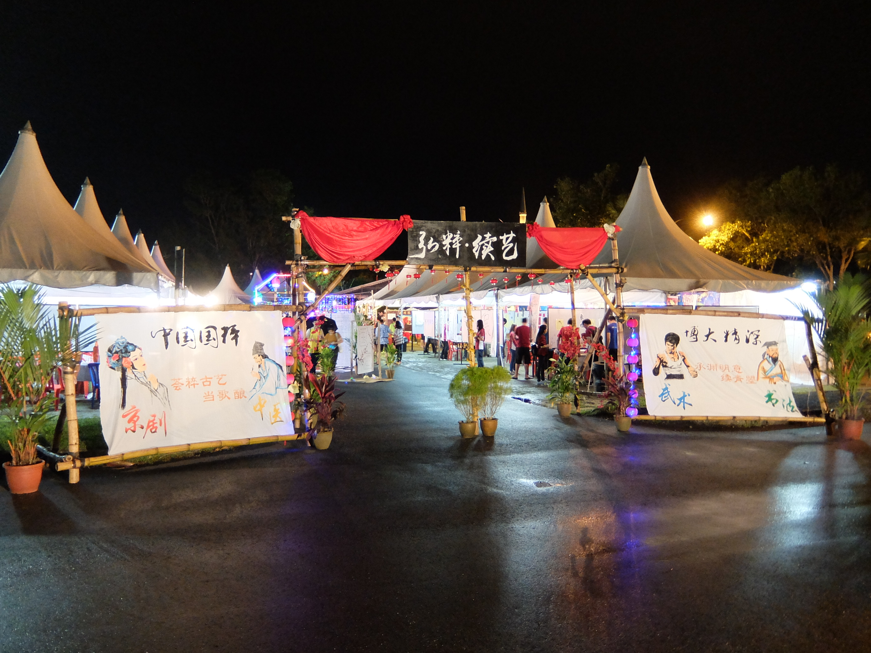 Mooncake Festival and Cultural Night 2018 @ Malaysia University of Technology, Skudai, Iskandar Puteri, Johor Bahru, Johor, Malaysia